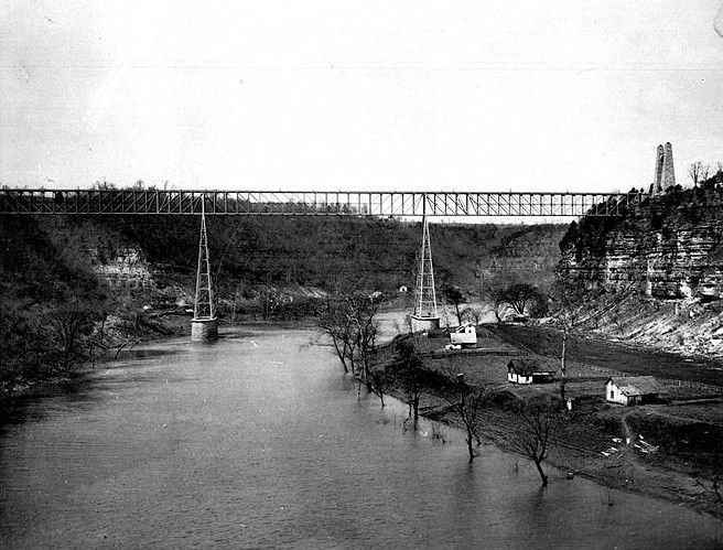 Highbridge on Queen & Crescent route, Kentucky